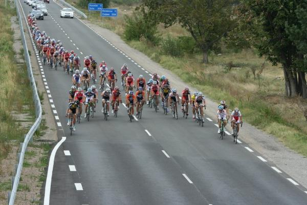 Tour of Bulgaria 2010 Stage 4: Kazanlak - Burgas 180km The peloton in action